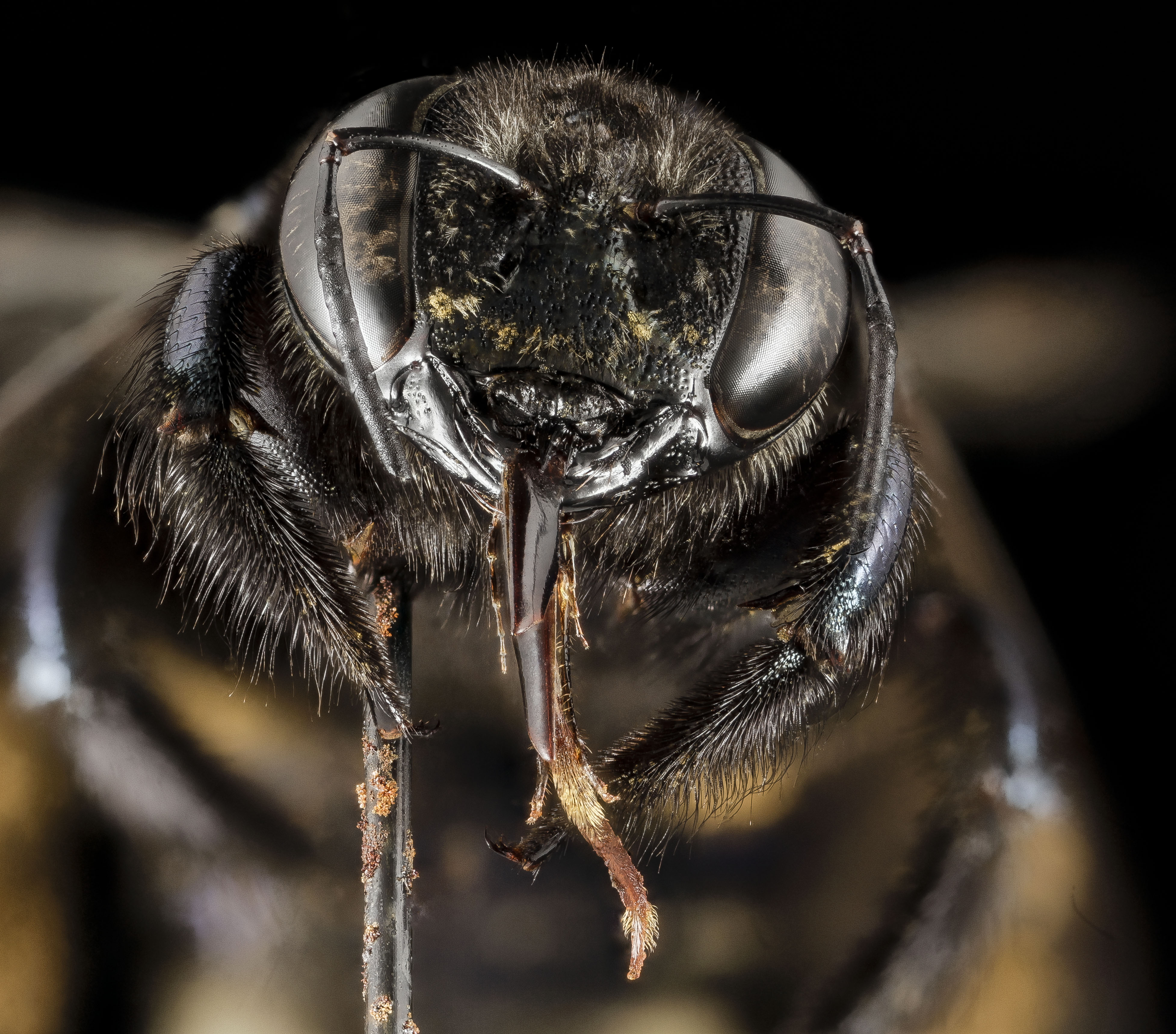 Here is a lovely carpenter bee from the southeastern part of the U.S., a bit smaller than X. viginica and as far as I know nests in twigs rather and does no damage to timbers (not that X. virginica does much in the way of real structural damage). This would be a wonderful giant bee if it could grown to the size of a poodle, perhaps some genetic modification is in order, as exothermic beings they would not eat as much food as dogs and cats and have the added benefit of being vegans. The world is full of possibilities. Collected by the fantastic Sabrie Breland in South Georgia Flatwoods. Photography by...Brooke Alexander. 00:13, 11 March 2015 (UTC)00:13, 11 March 2015 (UTC) 0 00:13, 11 March 2015 (UTC)00:13, 11 March 2015 (UTC) All photographs are public domain, feel free to download and use as you wish. Photography Information: Canon Mark II 5D, Zerene Stacker, Stackshot Sled, 65mm Canon MP-E 1-5X macro lens, Twin Macro Flash in Styrofoam Cooler, F5.0, ISO 100, Shutter Speed 200 The grass so little has to do, A sphere of simple green, With only butterflies to brood, And bees to entertain, - Emily Dickinson Contact information: Sam Droege 301 497 5840